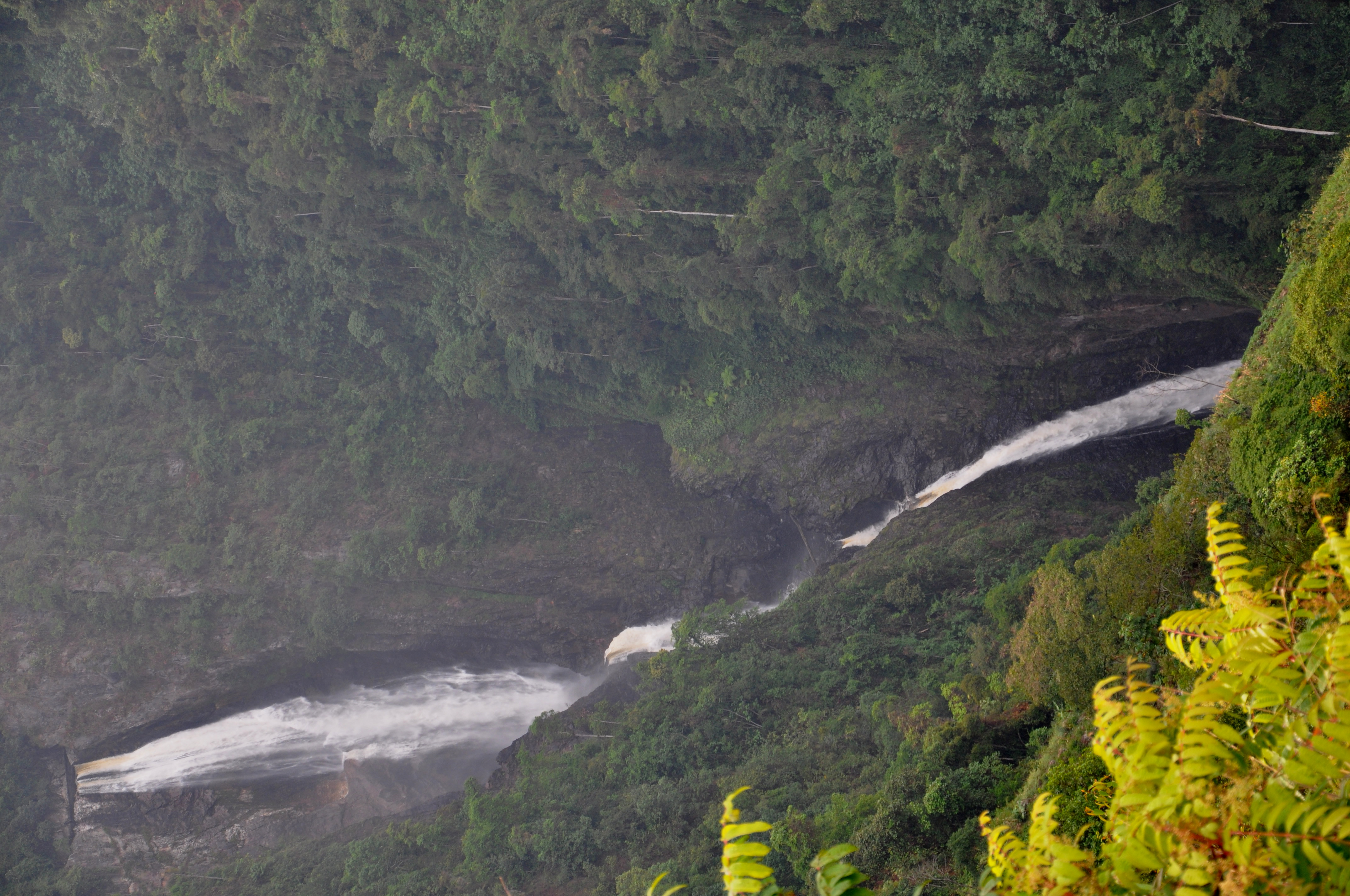 Choachí waterfall - Highest of Colombia (590m)